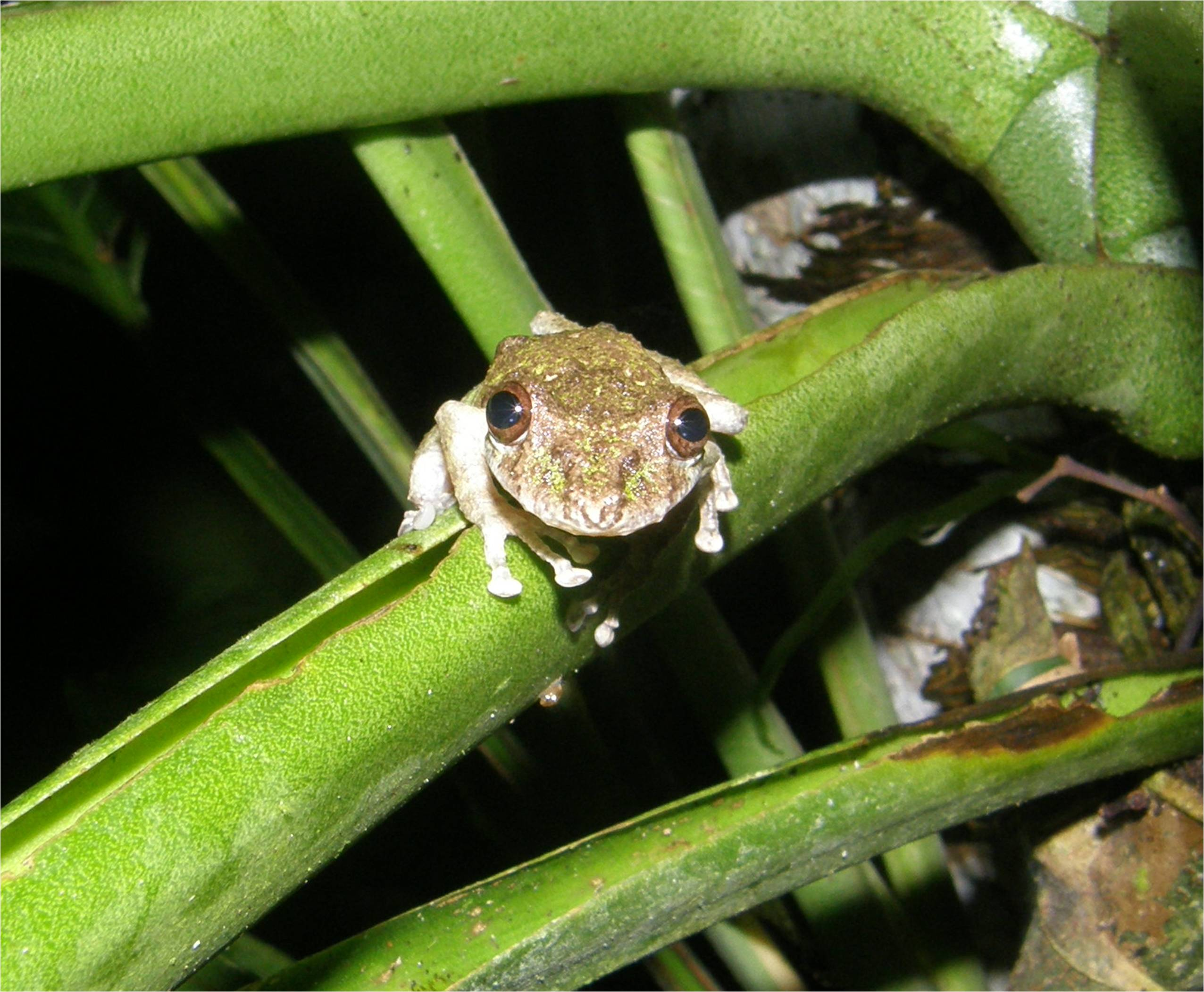 Scinax boulengeri